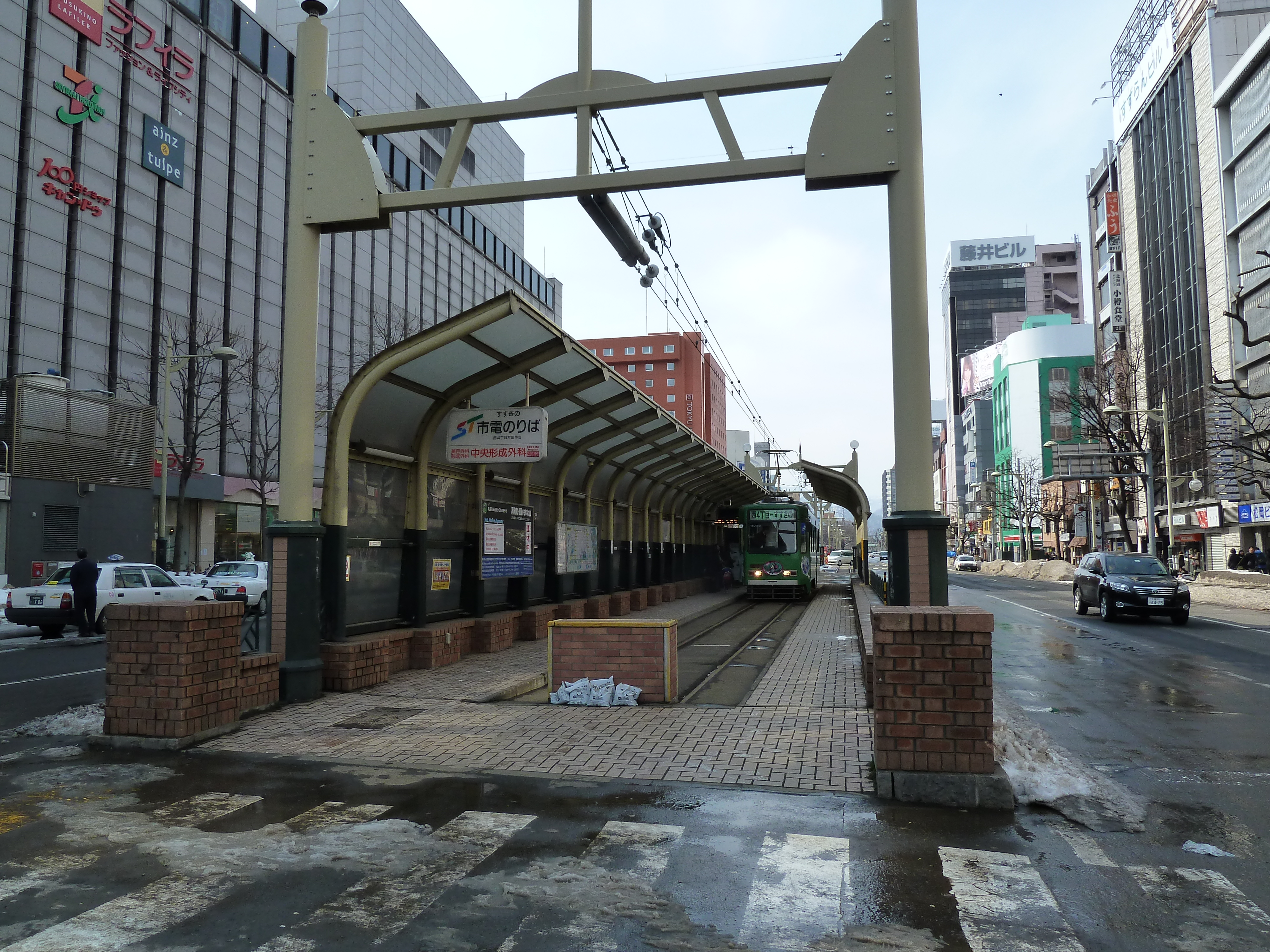 すすきの駅「市電」